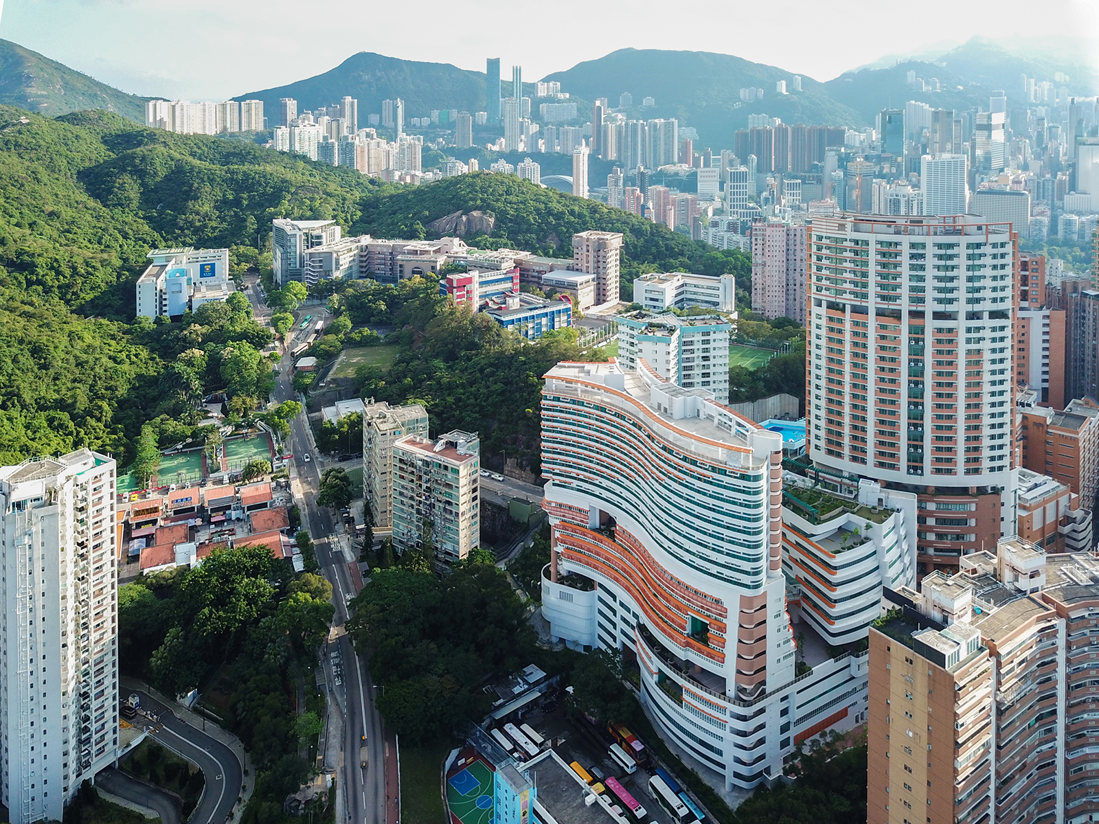 Braemar Hill Schools